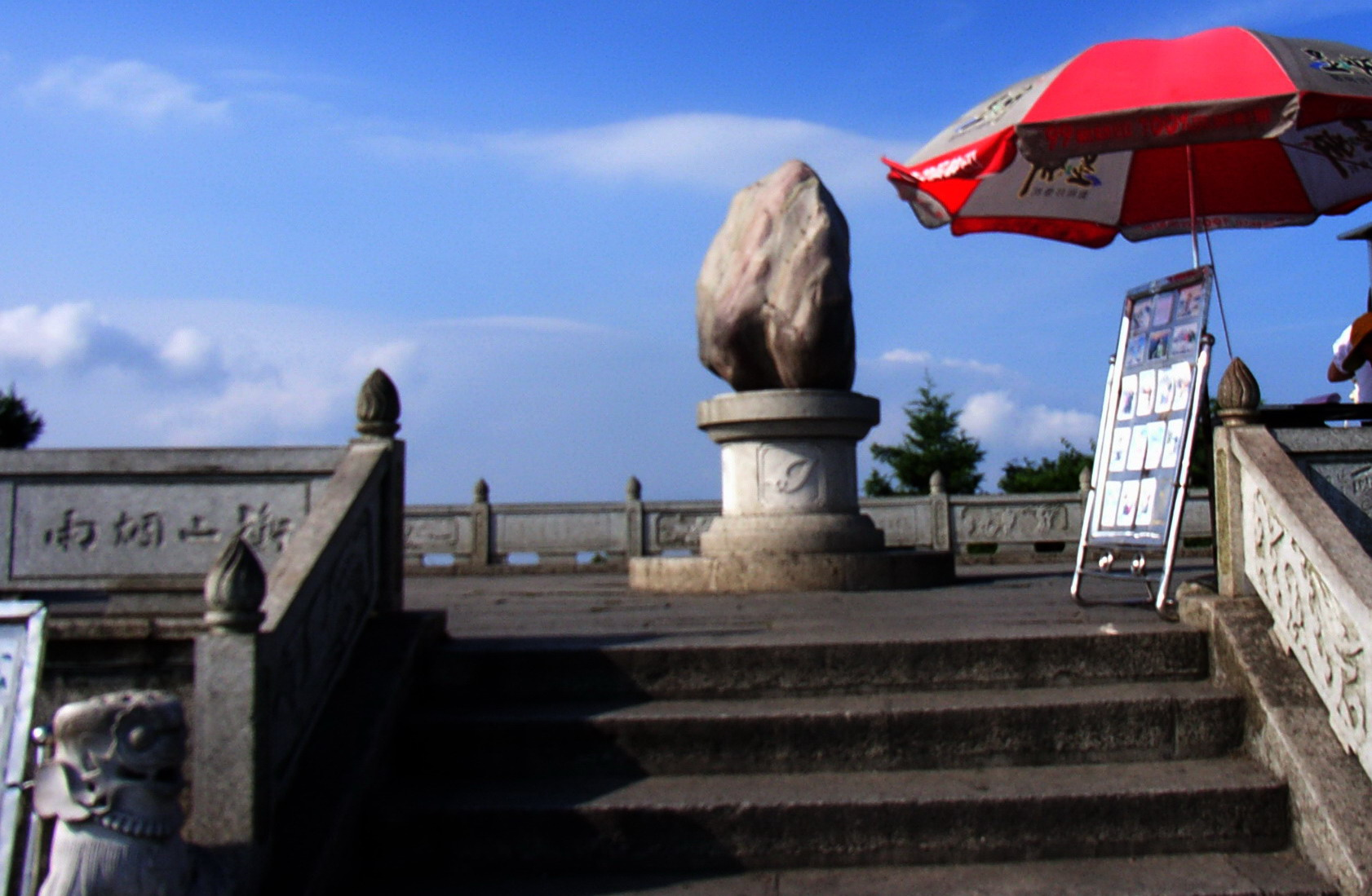 Thurong temple on the top of Hengshan (Hunan) mountain